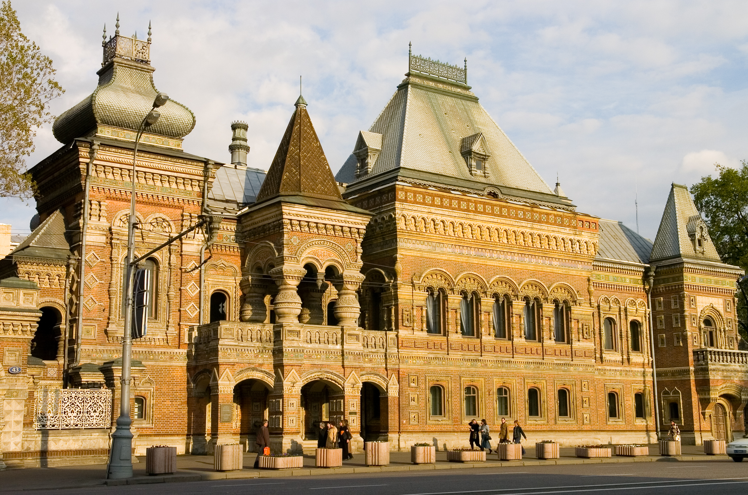 French embassy in Moscow